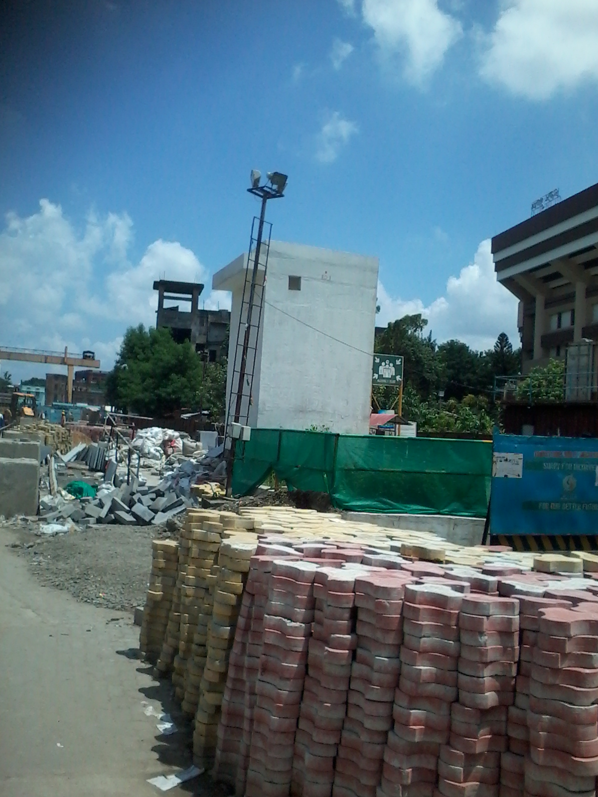 Kolkata East-West Metro marginal station.